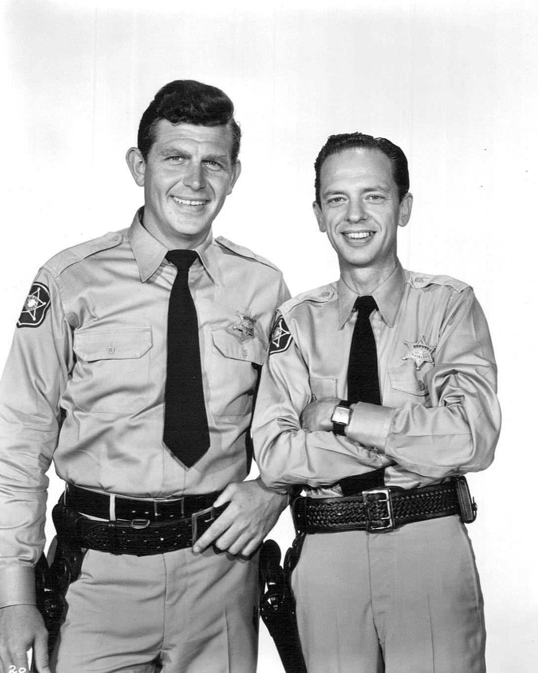 Photo of Andy Griffith as Sheriff Andy Taylor and Don Knotts as Deputy Barney Fife from the premiere of The Andy Griffith Show.